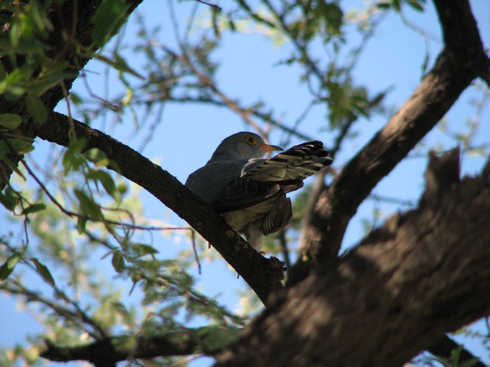 An adult African cuckoo in Etosha National Park, Namibia